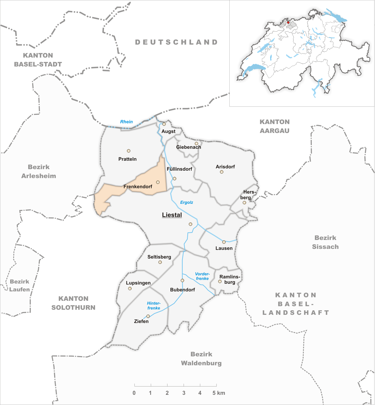 Municipality Frenkendorf